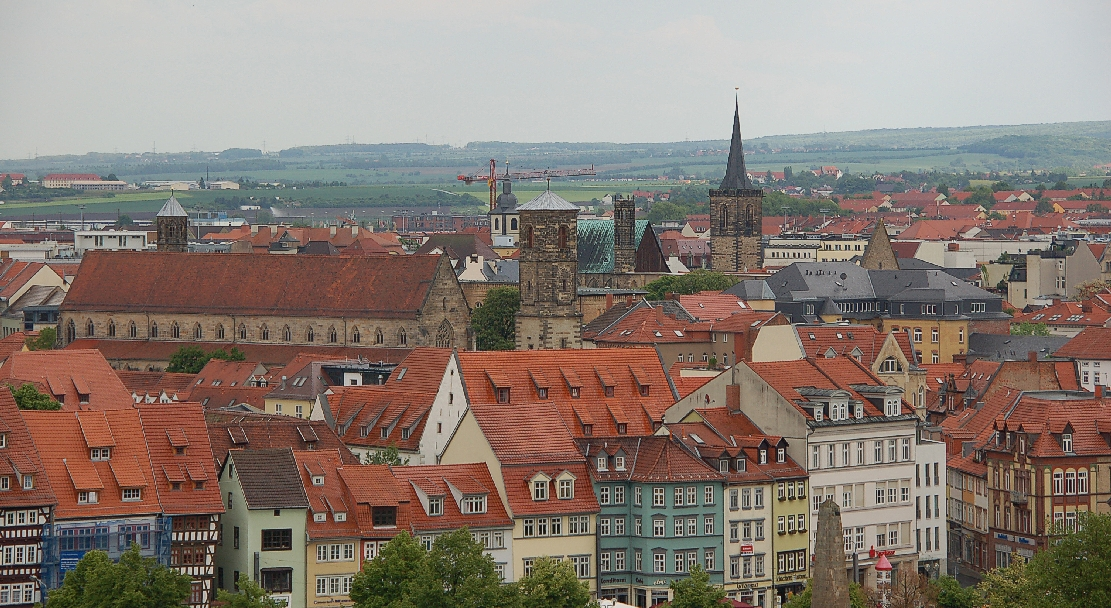 Erfurt, panoramic view over historic centre